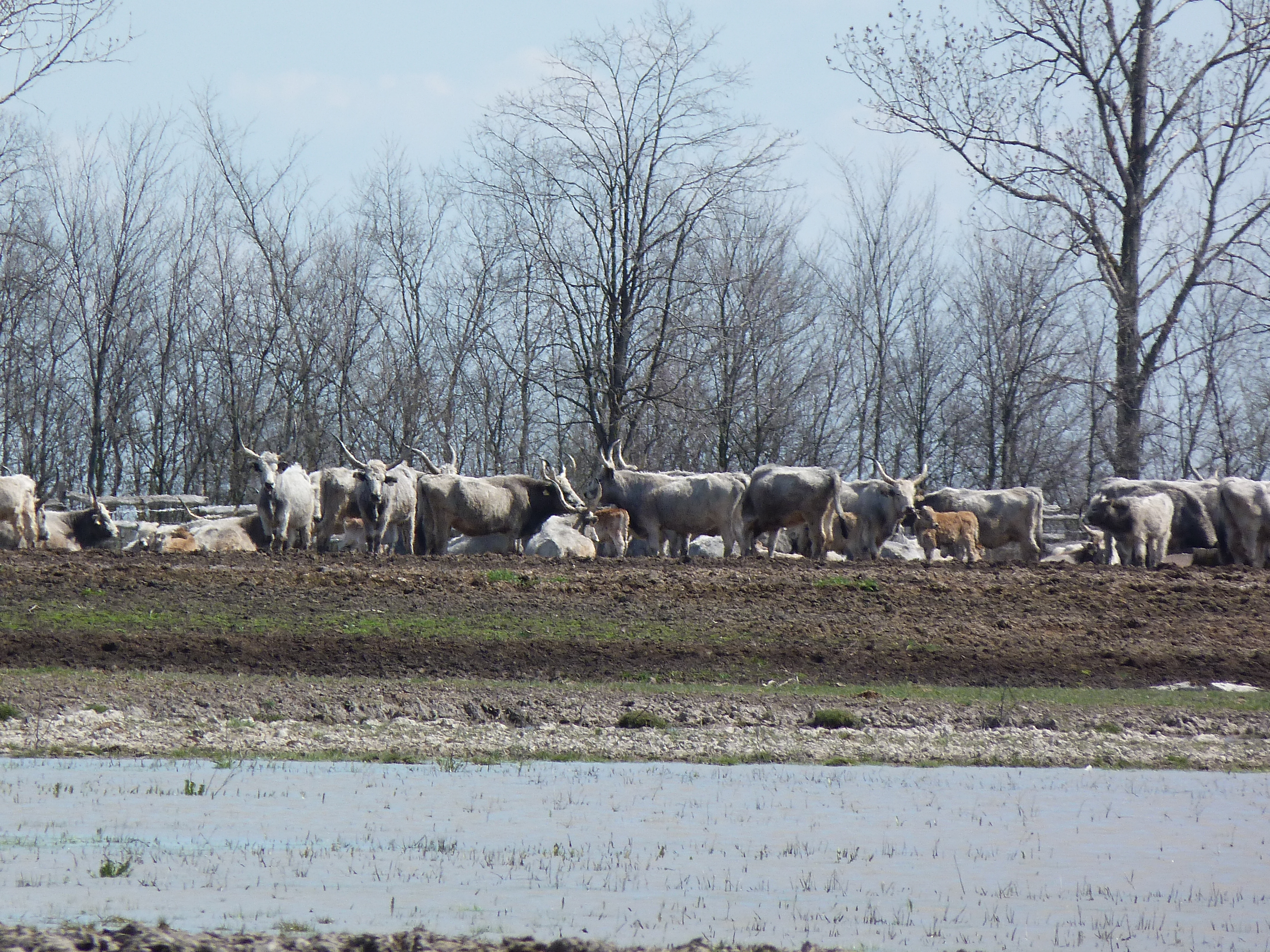 Live on the 13th of April, 2013. Nagyállás, Kiskunsági Nemzeti Park. Coordinate: 46°56'20"N 19°9'21"E. ©© Derzsi Elekes Andor, Budapest, 2013, You are authorised to use these photos and vids under Creative Commons – even for commercial, for profit purposes. Photos must be attributed to Derzsi Elekes Andor. All of the photos and vids in the Metapolisz DVD line are under Creative Commons and can be used even for commercial – for profit – purposes. Recommended Citation Derzsi Elekes Andor: Metapolisz DVD line A felvételek 2013. Április 13 –án készültek a Nagyállásnál. Kiskunsági Puszta. Bács-Kiskun megye, koordinátái: 46°56'20"N 19°9'21"E A Duna-Tisza közén, Kunszentmiklós és Szabadszállás között fekvő területen régen a Bécs felé induló marhacsordák vártak a hajtásra. Most természetvédelmi központ van rajta.